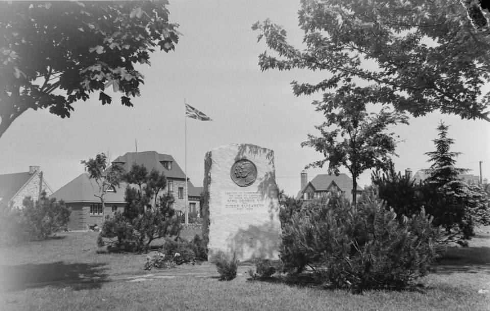 We see a memorial erected in the Hampstead Park after the visit of King George VI and Queen Elizabeth in May 1939.